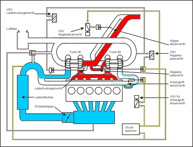 Toyota Supra MKIV Sequential Turbo System 003